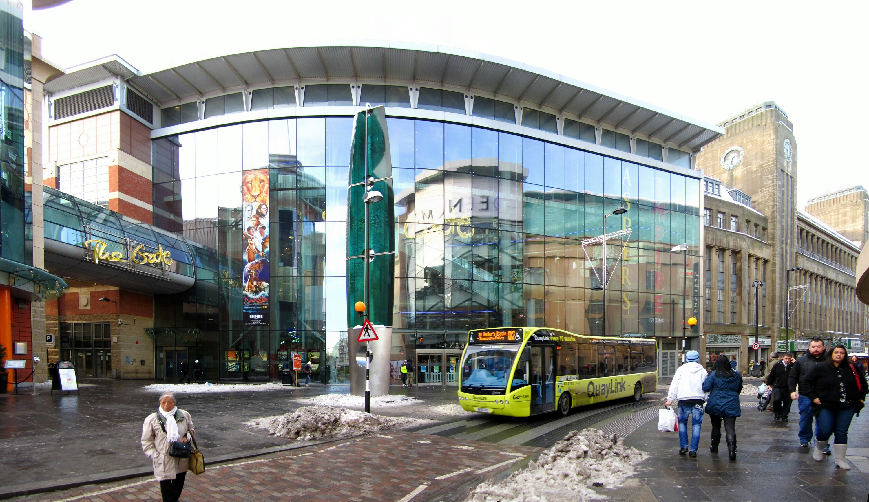 The Gate, a leisure complex on Newgate Street, Data from Geograph: Description: The bus coming in from the right almost wrecked the panorama Reflections in the glass frontage are of the new Debenhams store extension to the Eldon Square Shopping Centre that stand opposite. The Co-op building can be seen to the right. Danny Lane's "Ellipsis Eclipses" is the vertical object towards the centre of this photograph ICBM: 54.972356057105, -1.6178671053433 Location: (about 2 km from) near to Gateshead, Great Britain.